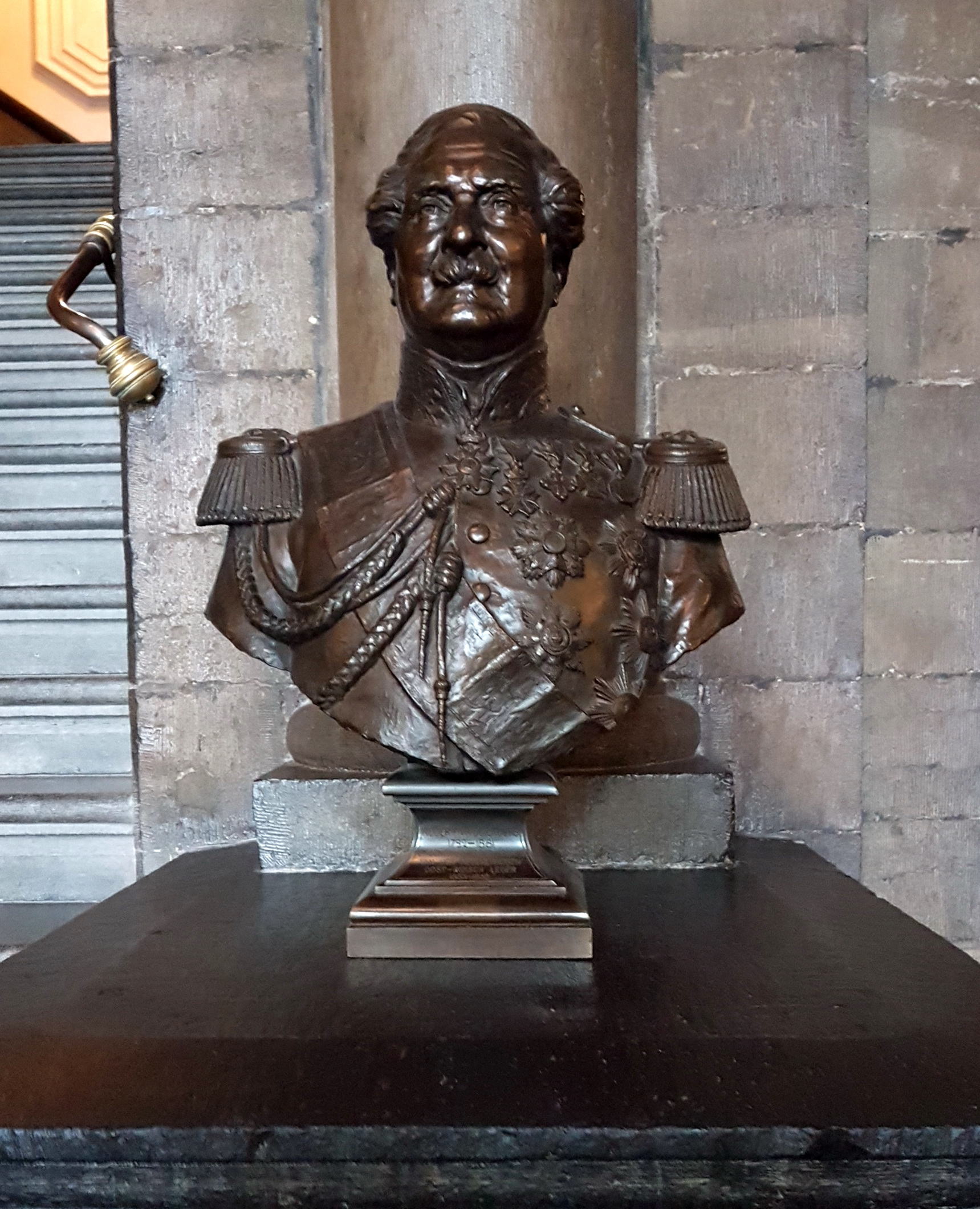 Bronze bust in the great hall (Plein) in the 17th-century town hall in Maastricht, Netherlands. The bust is of a Maastricht-born general of the Royal Netherlands East Indies Army (Hubert Joseph Jean Lambert de Stuers?).